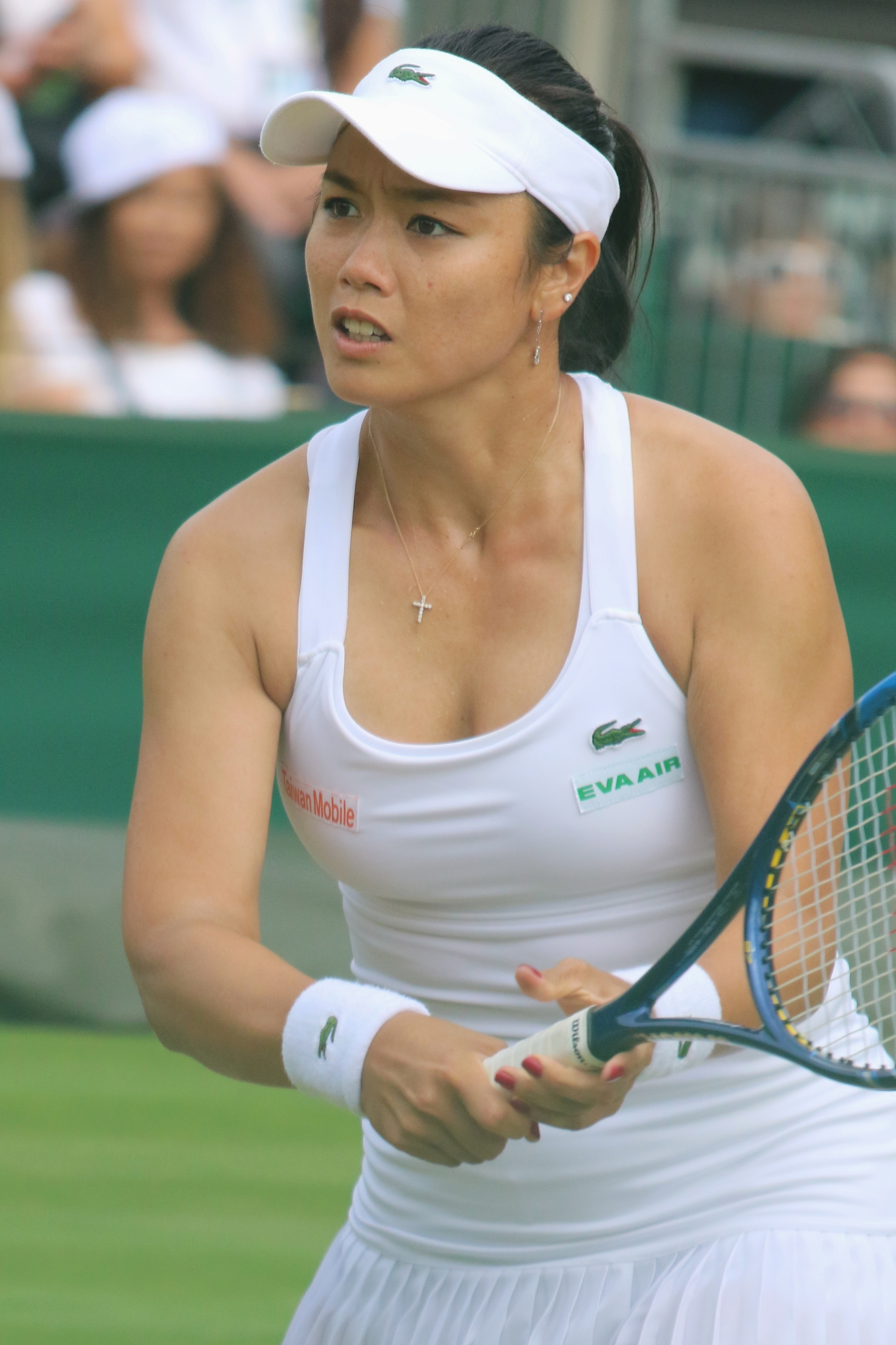 Chan YJ. WM17 (2)